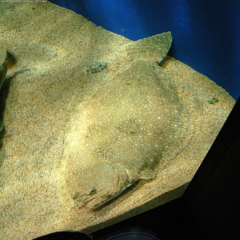 Bastard halibut, kingdom: Animalia; Phylum: Chordata; class: Actinopterygii; order: Pleuronectiformes; family:Paralichthyidae; genus: Paralichthys; species: Paralichthys olivaceus